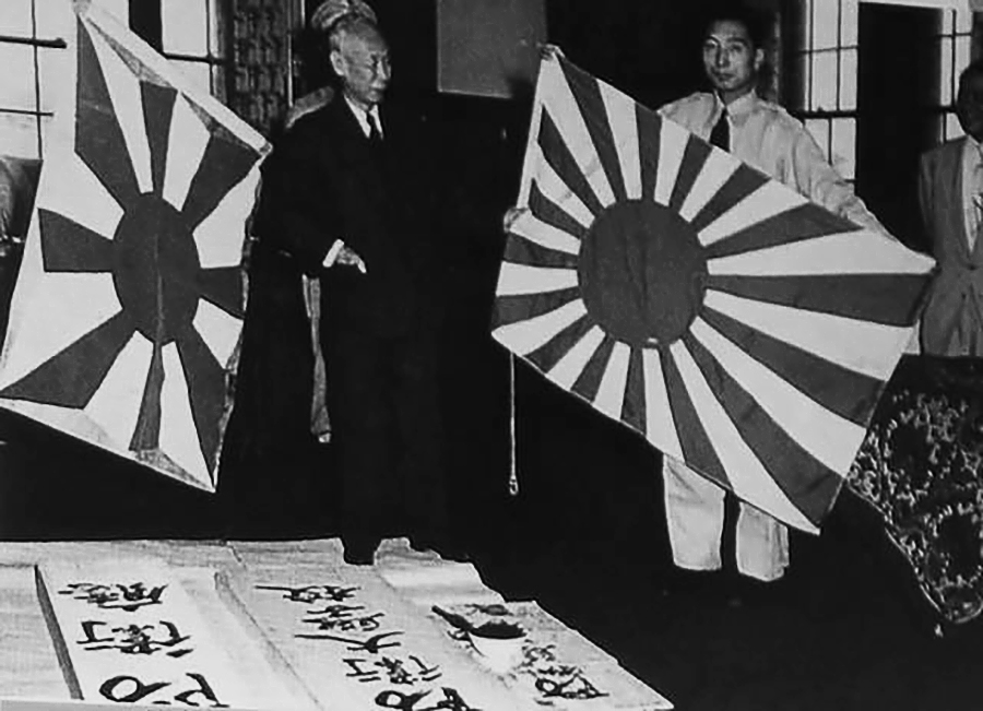 Establishment of Japan Self-Defense Force flag and the Maritime Self-Defense Force flag. Center left is Kimura Atsutaro, the first director of the Japanese Defense Agency. The signboards of the Japanese Defense Agency and the National Defense Academy are on the ground.